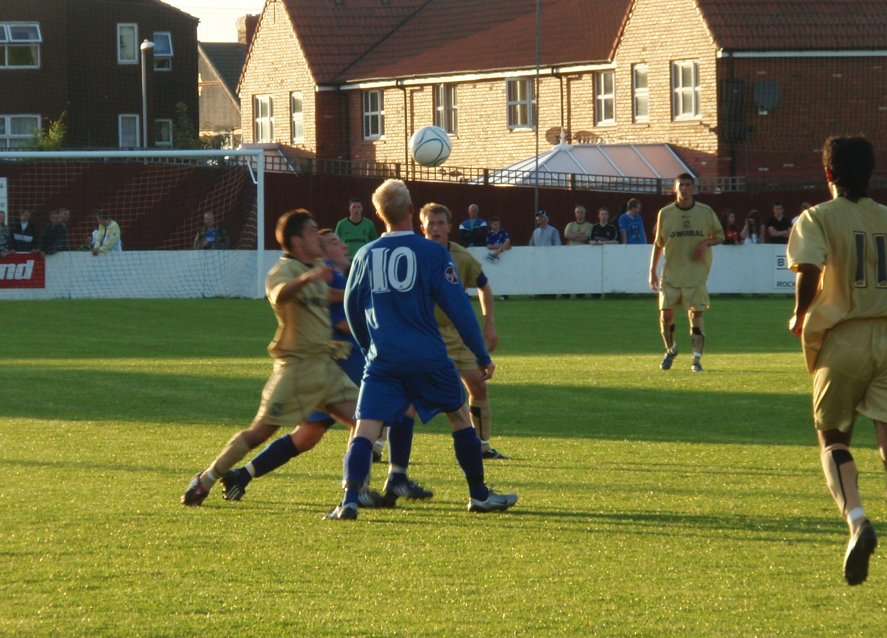 Cammell Laird F.C. v Tranmere Rovers F.C. Pre-season friendly 2nd August 2008 Final Score : 2–2